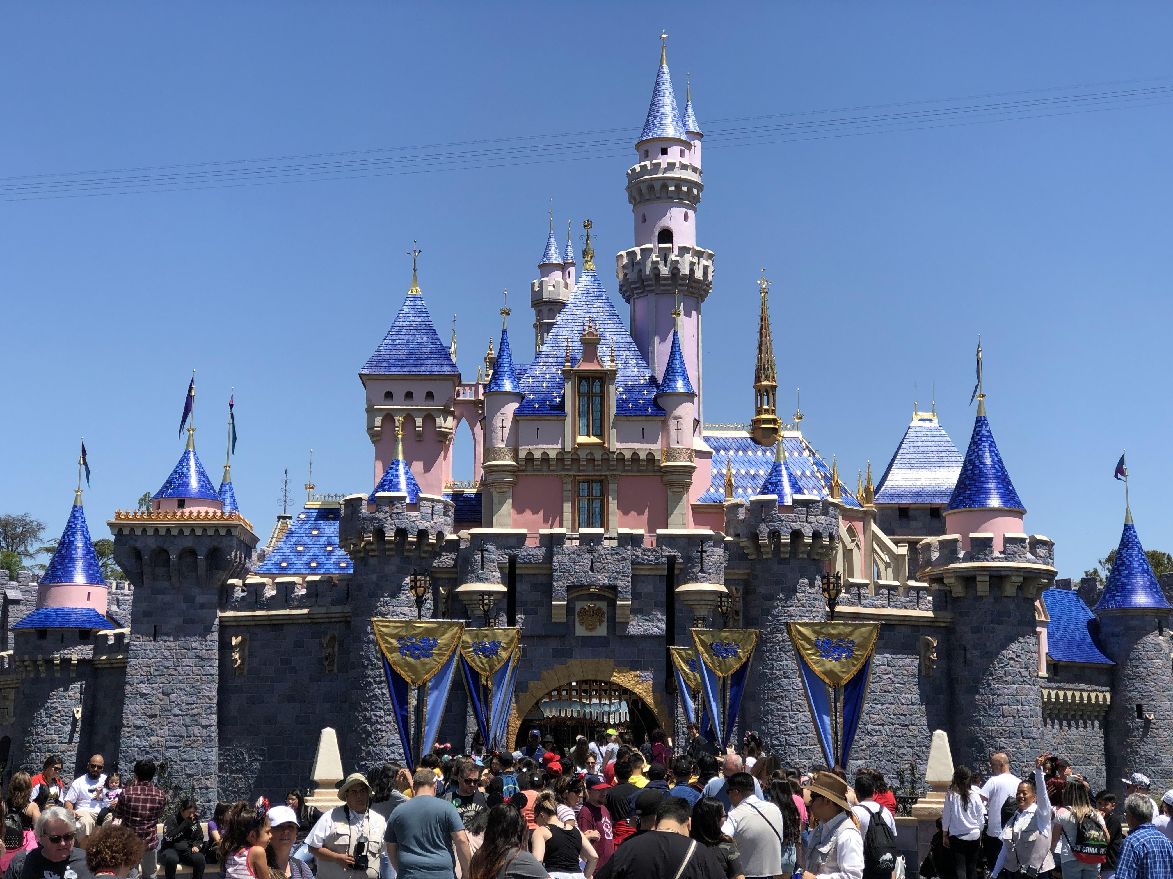 Sleeping Beauty Castle in 2019 after refurbishment